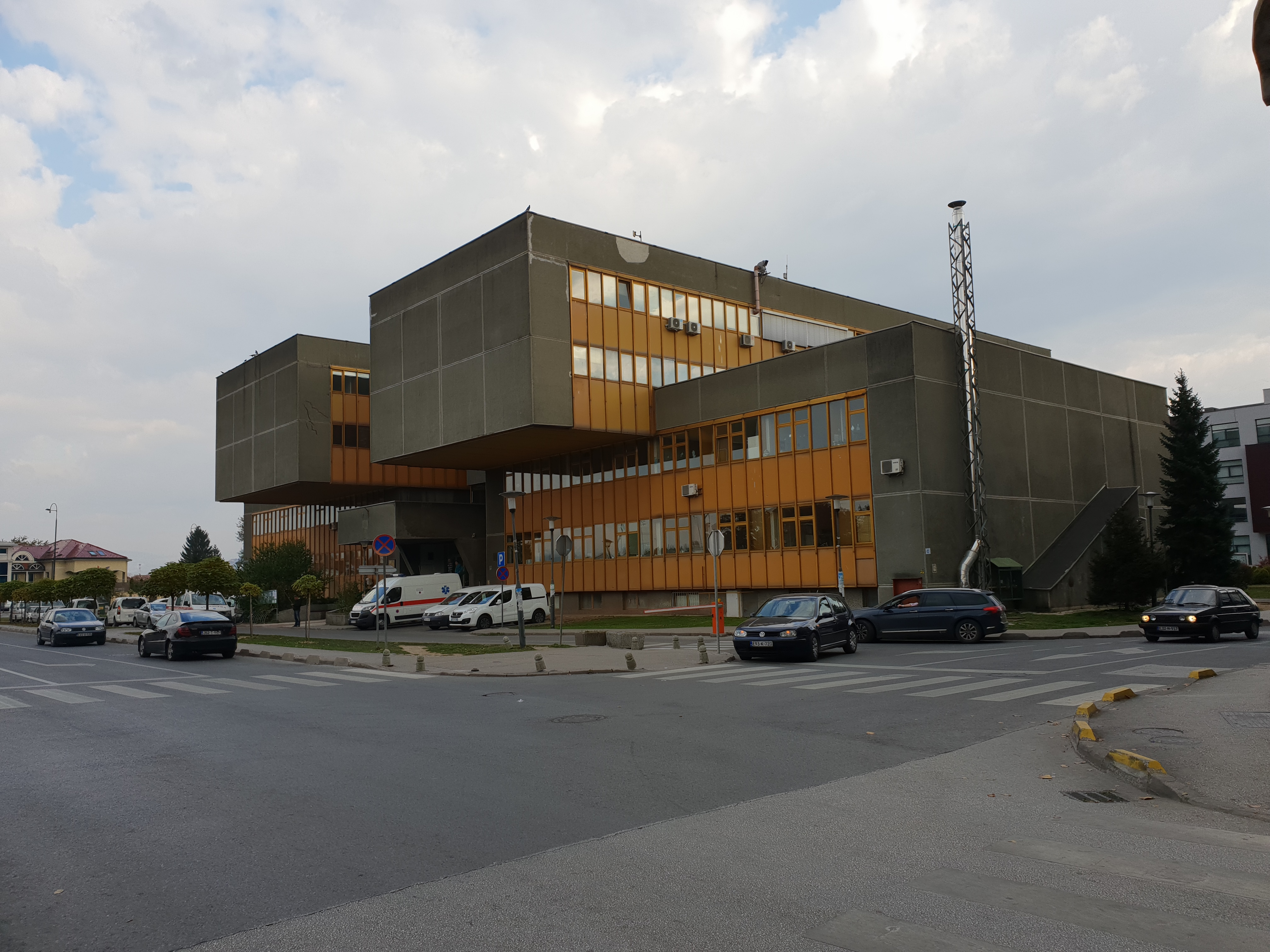 The Ilidža Public Medical Center.